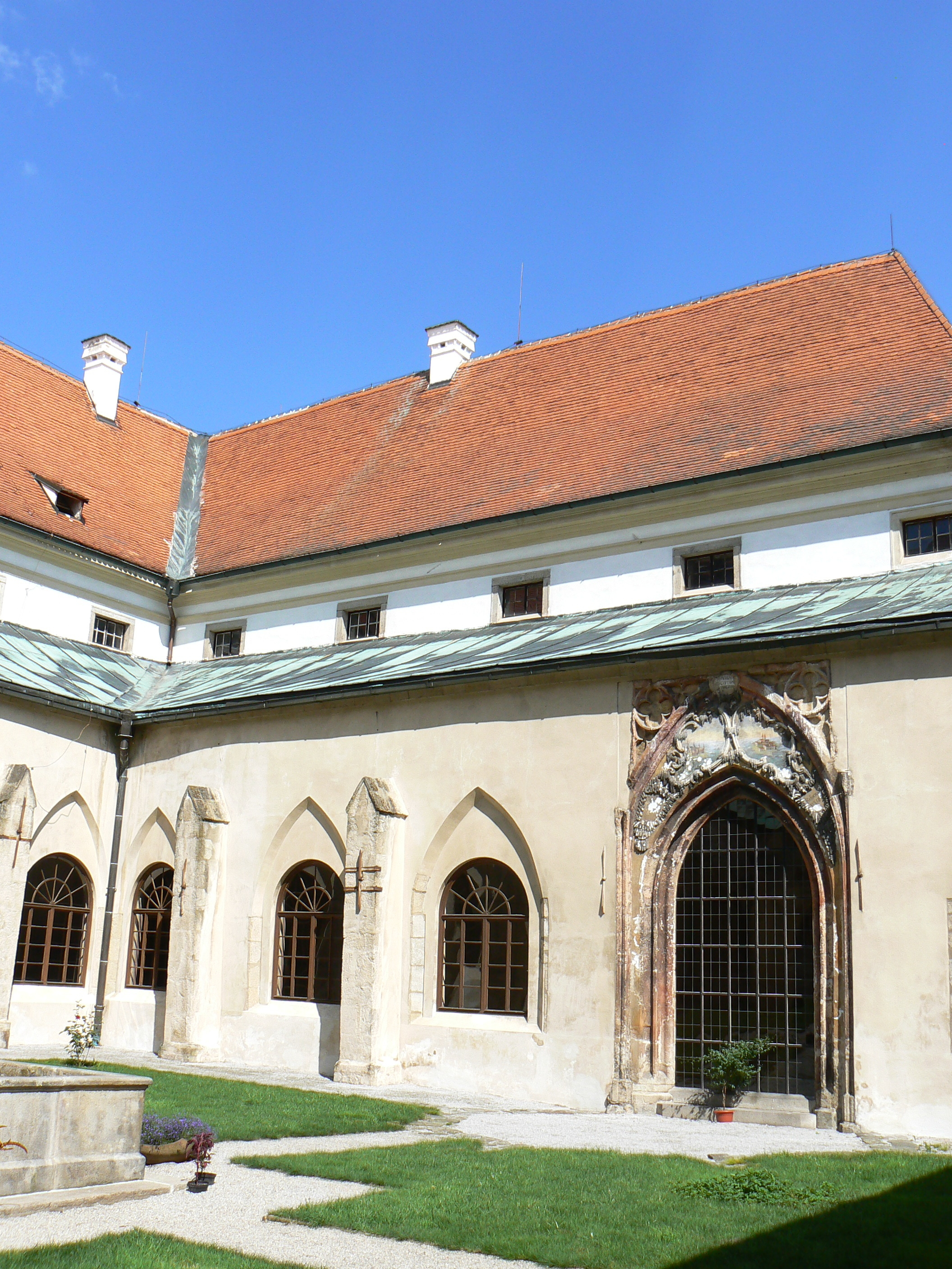 Zlatá koruna Monastery